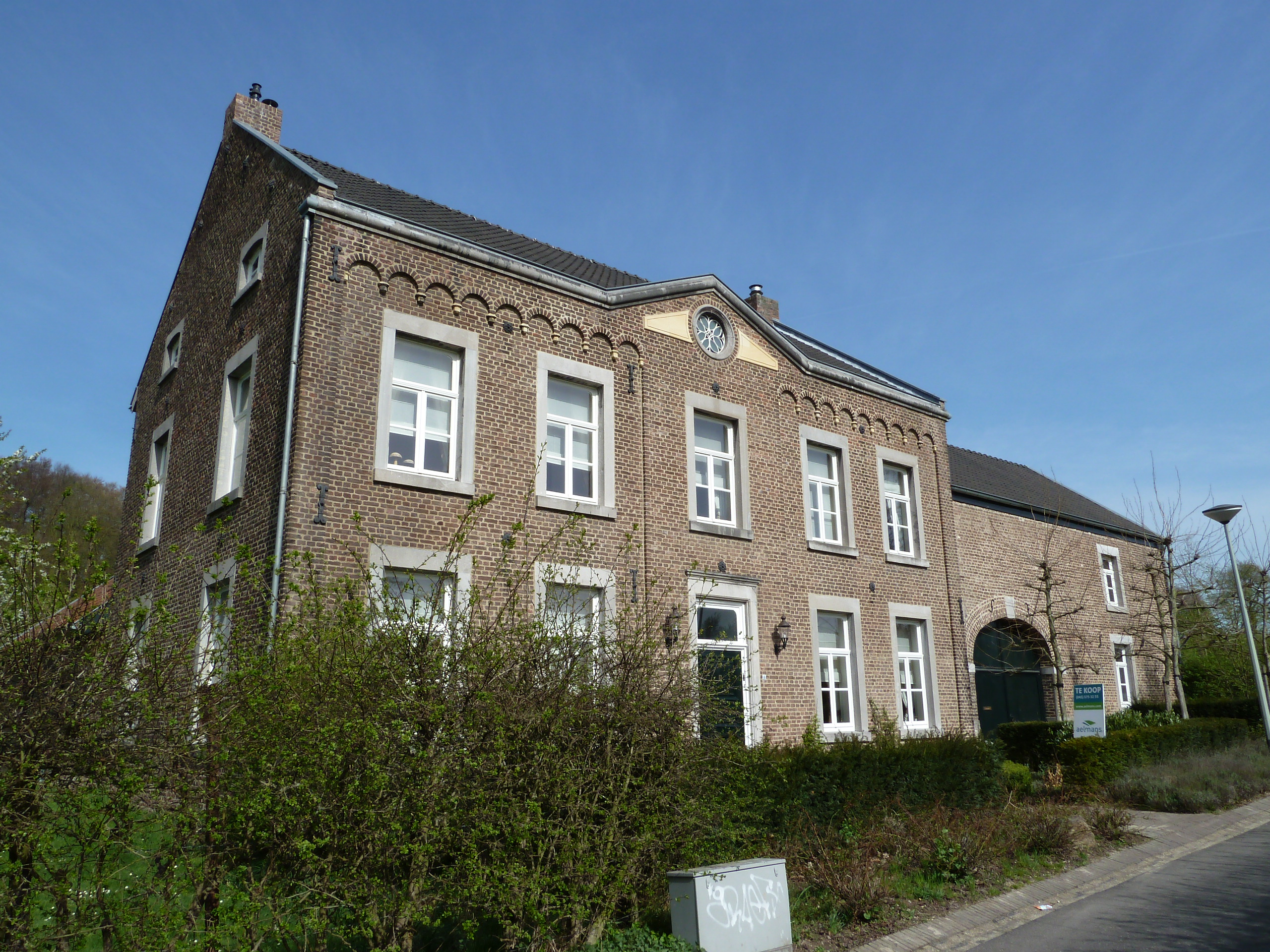 Thull 1, Schinnen, Limburg, the Netherlands